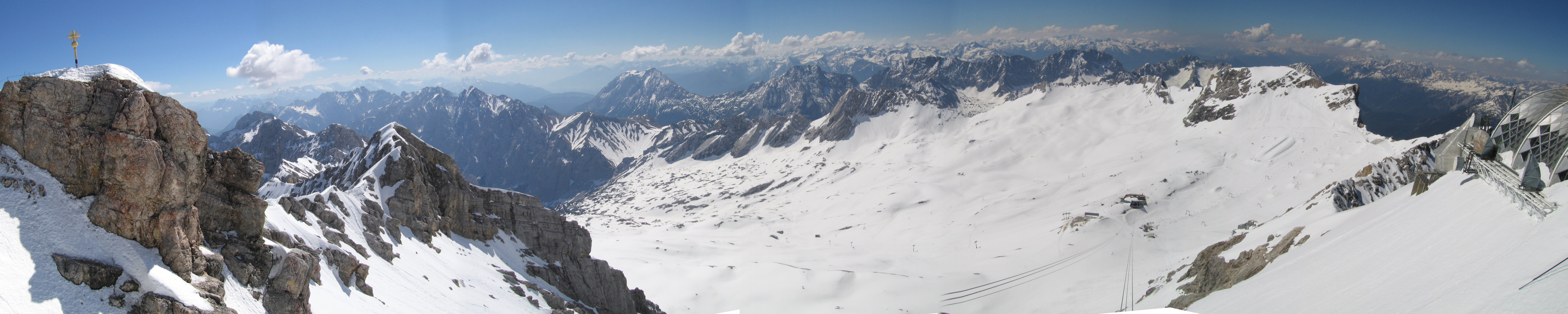 View from the Zugspitze platform looking south toward Austria. Notice the gold cross in the left foreground marking the highest point in Germany. Author: John C. Watkins V